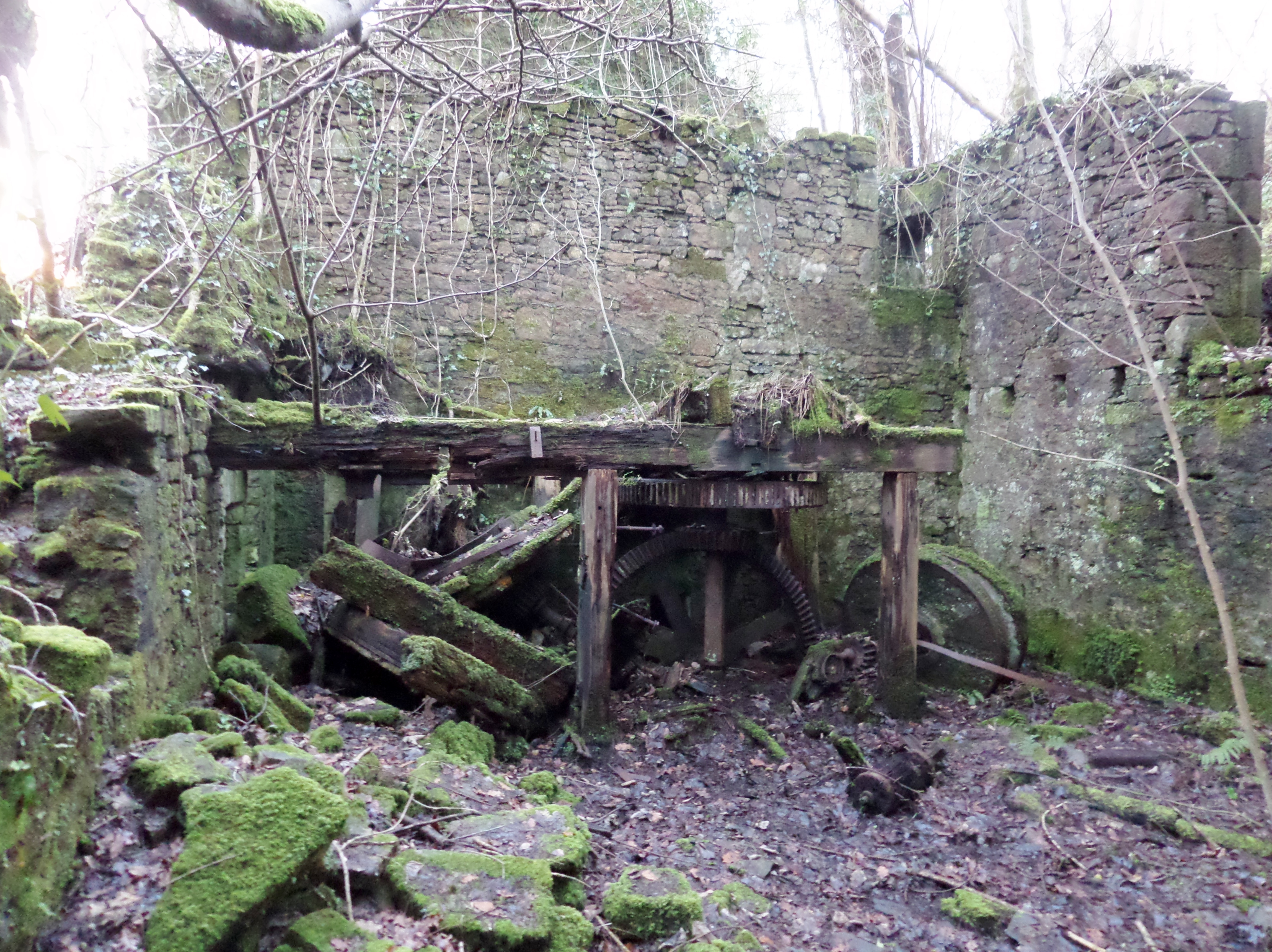 Millbank Mill ruins, Lochwinnoch - mill machinery and wall of the old water wheel housing. Ceased operation circa 1950. Both millstones are visible